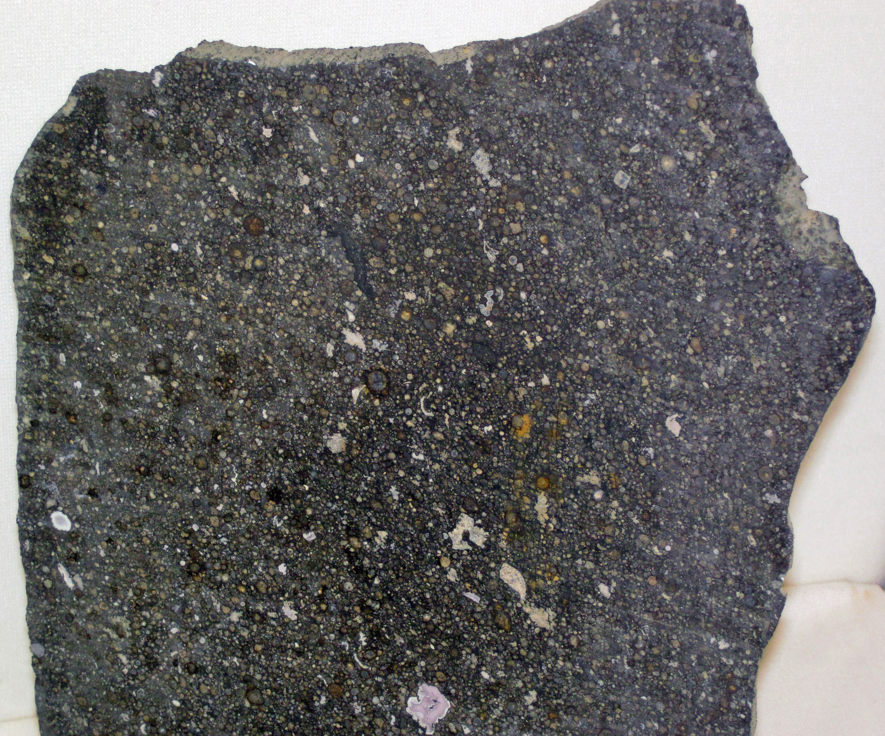 Carbonaceous chondrite - large slice (549 grams) of the Allende Meteorite. (Maine Mineral & Gem Museum collection, Bethel, Maine, USA) Carbonaceous chondrites are dark gray to blackish-colored chondrite meteorites with a relatively carbon-rich matrix. The first large sampling of carbonaceous chondrites available to meteoriticists came with the 1969 fall of the Allende Meteorite. Before Allende, carbonaceous chondrite material was exceedingly rare. Allende has become the most heavily studied and the most famous carbonaceous chondrite. Allende impacted on Earth at 1:05 AM on 8 February 1969. Its known strewn field trends southwest-to-northeast in the vicinity of the town of Allende in southeastern Chihuahua State, northern Mexico. The slice shown above displays the internal structure & composition of the Allende carbonaceous chondrite. Allende has small, spherical to subspherical structures called chondrules (all chondrites have these). Allende also contains whitish, irregularly-shaped patches called CAIs (“calcium-aluminum inclusions”), composed of high-temperature Ca-Al-Ti silicates & oxides. The blackish, fine-grained, carbon-rich matrix consists of Fe-olivine & poorly graphitized carbon. A few tiny specks of metallic iron-nickel alloy also occur. Allende rocks represent the near-oldest meteoritic material known. The olivine chondrules in Allende rocks date to 4.560 billion years. The CAIs in Allende rocks date to 4.568 billion years.